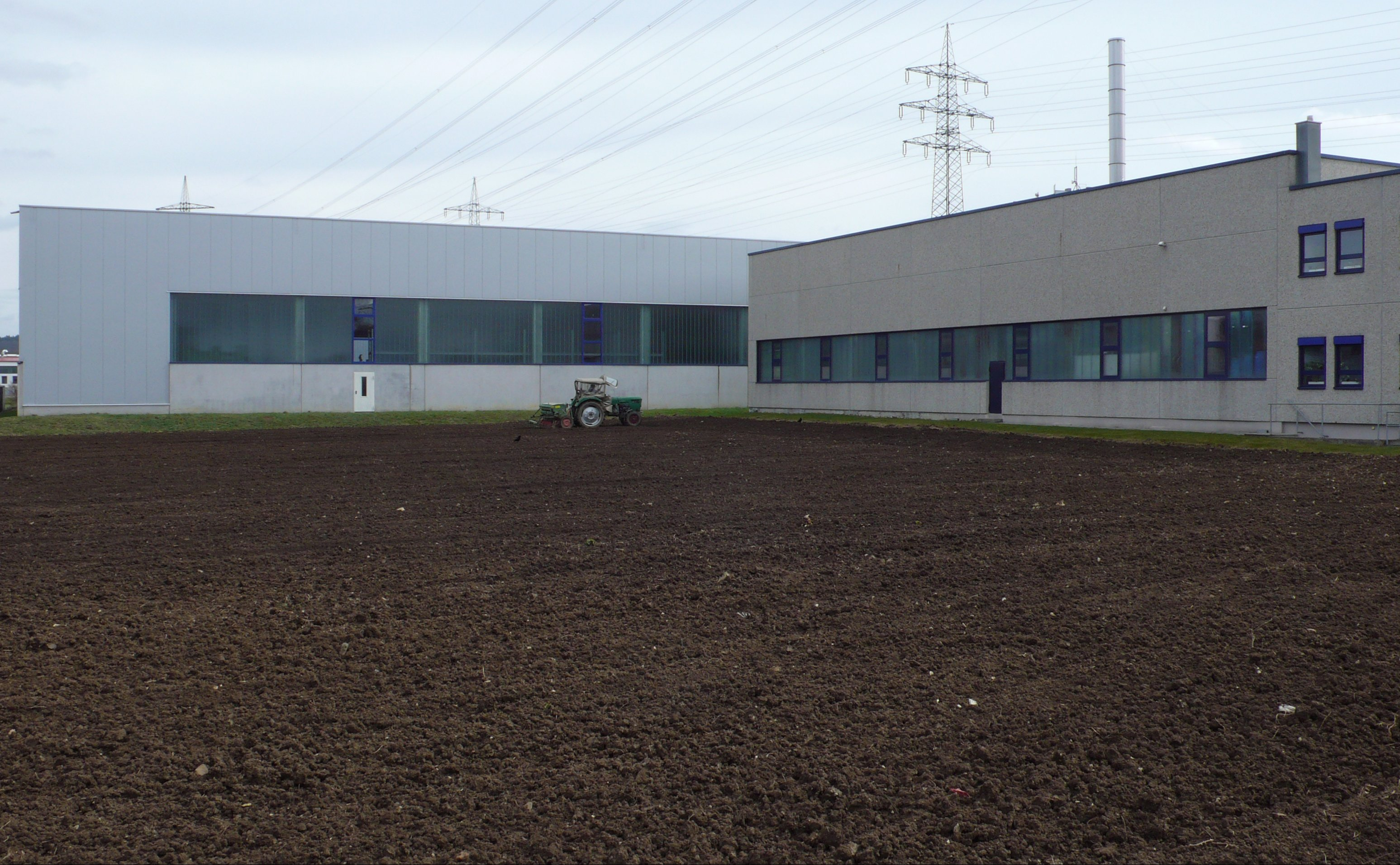 Metzingen: farming scene inside the biosphere region Swabian Alb